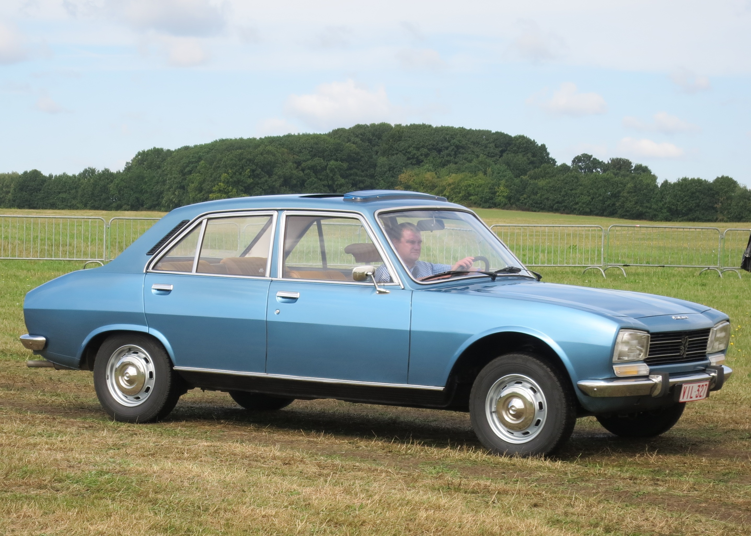 Peugeot 504 in Belgium